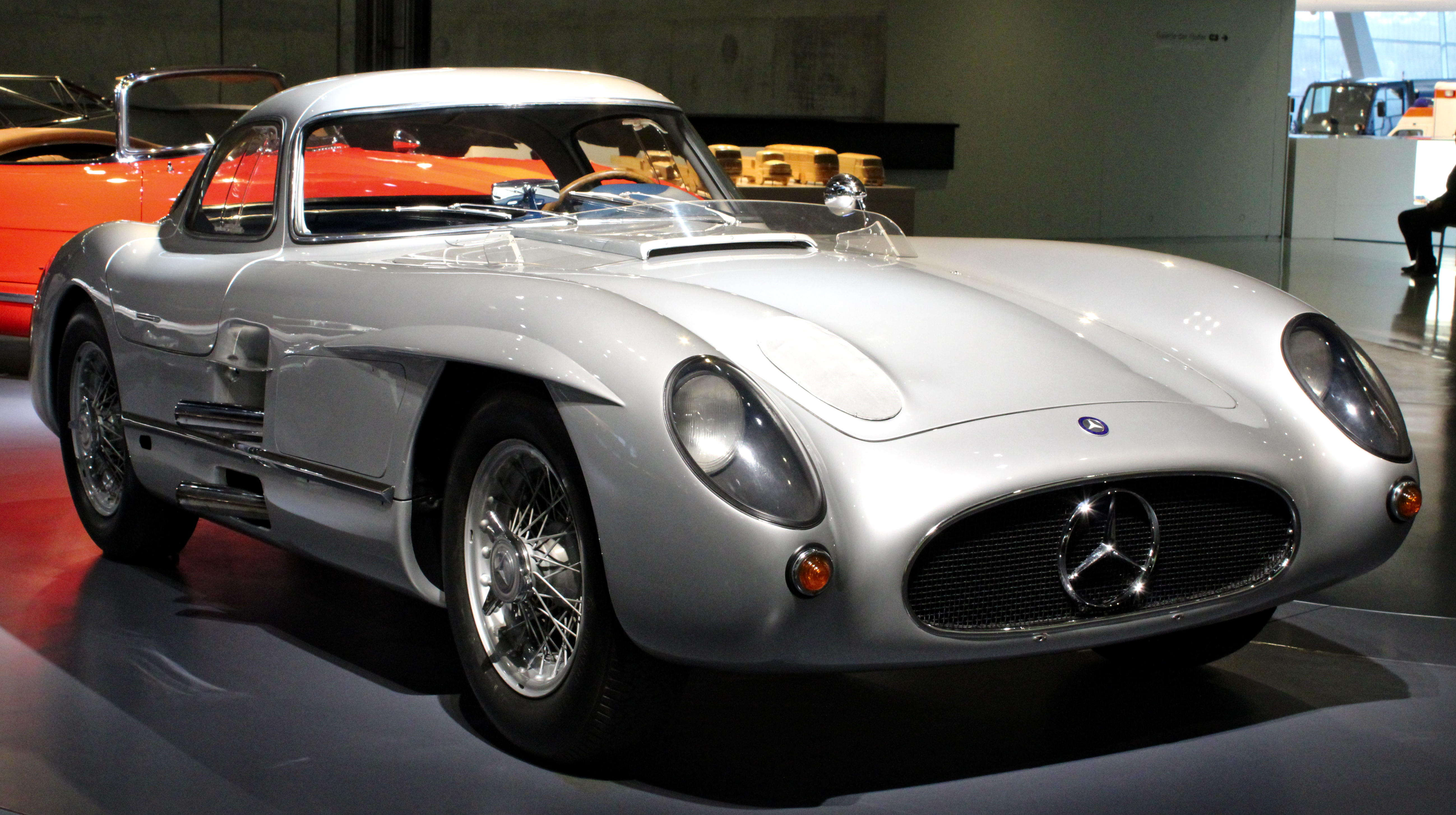 Mercedes-Benz 300 SLR Uhlenhaut-Coupe in the Mercedes-Benz Museum in December 2018